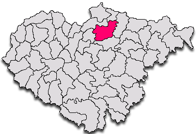 Map Salaj County Romania